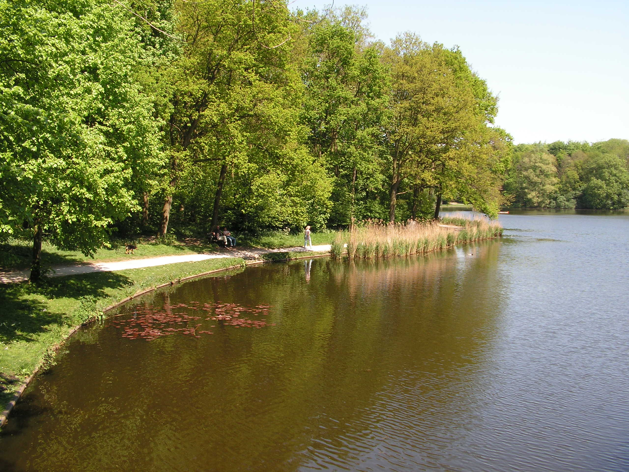 The park Haagse Bos from the center of The Hague, Netherlands